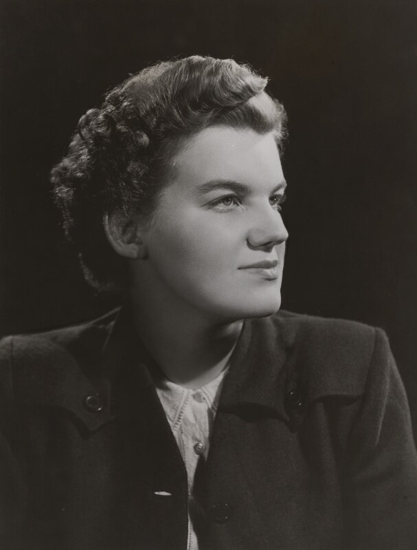 Hon-Deirdre-Jane-Frances-Chapin-ne-OBrien